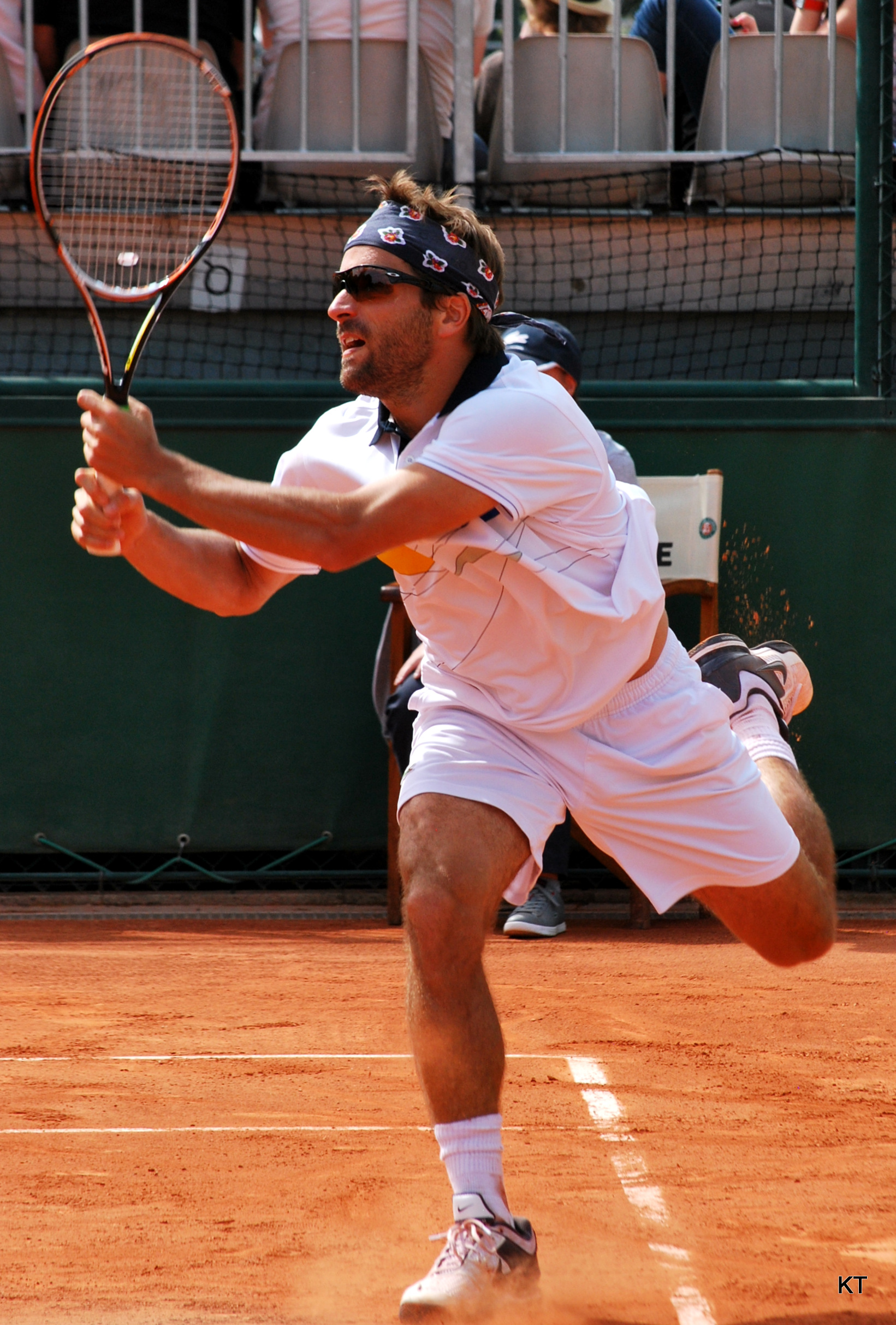 Arnaud Clement during his first round doubles match with Kenny De Schepper, against Paul Hanley & Jordan Kerr. Hanley & Kerr won 6-3, 7-6.